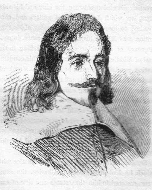 Archibald Campbell (1598-1664)